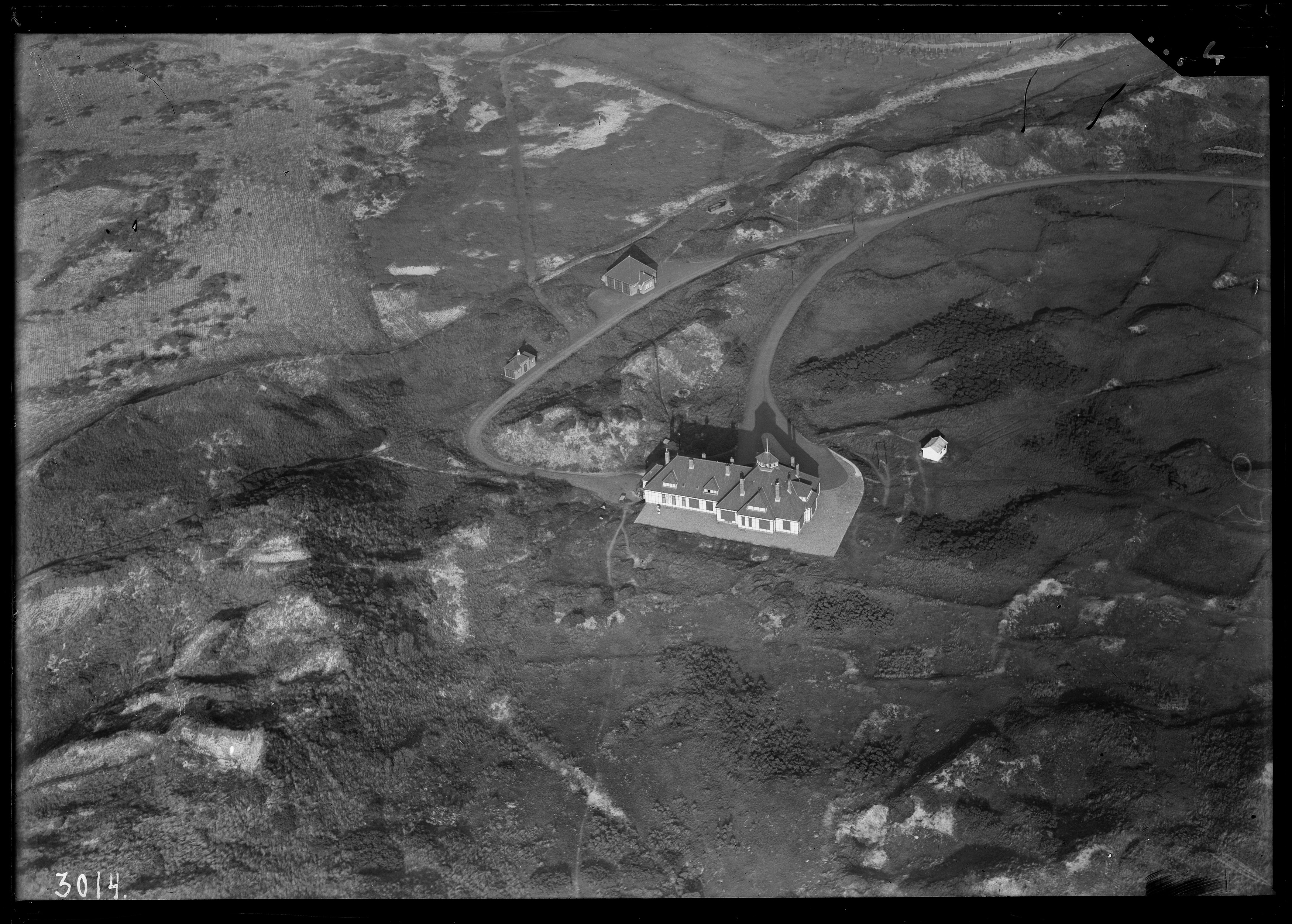 Aerial photograph of Scheveningen, The Netherlands